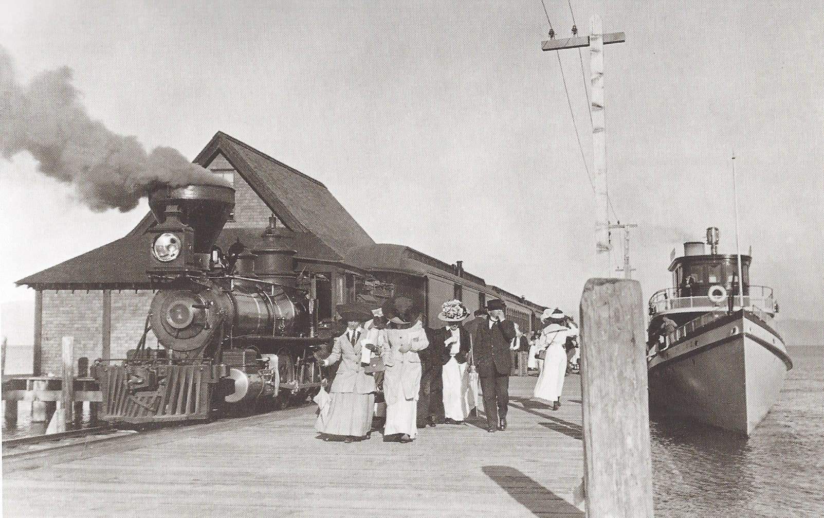 The pier at Tahoe City had railroad tracks, so passengers could disembark and immediately board the S.S. Tahoe steamboat, to continue their journey to points around the lake. In Placer County, California.